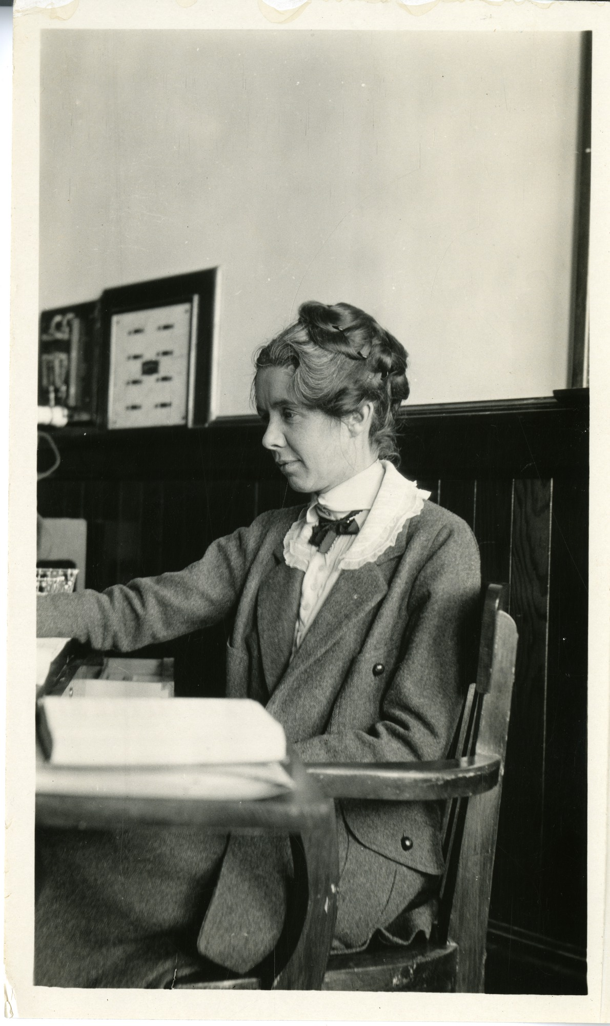 Acc 90-105, Box 14, Folder "Portraits, Mem-Mer"; Psychologist Maud Amanda Merrill (1888-1985) taught psychology at Stanford University, 1920-1947, but only became a full professor in 1947. She had trained at Oberlin College (A.B., 1911) and Stanford (Ph.D., 1923)